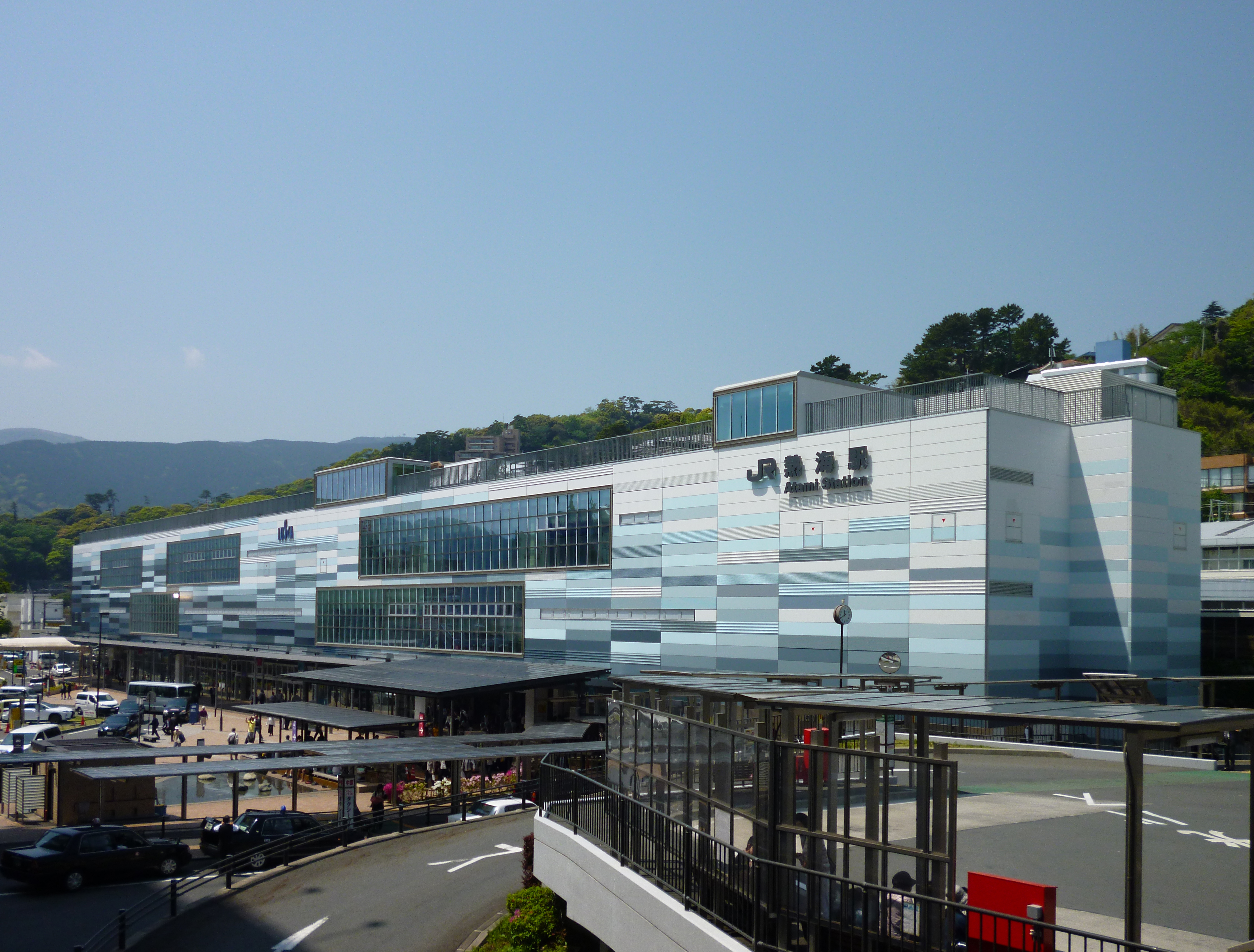 Atami Station in Atami, Shizuoka Prefecture, Japan